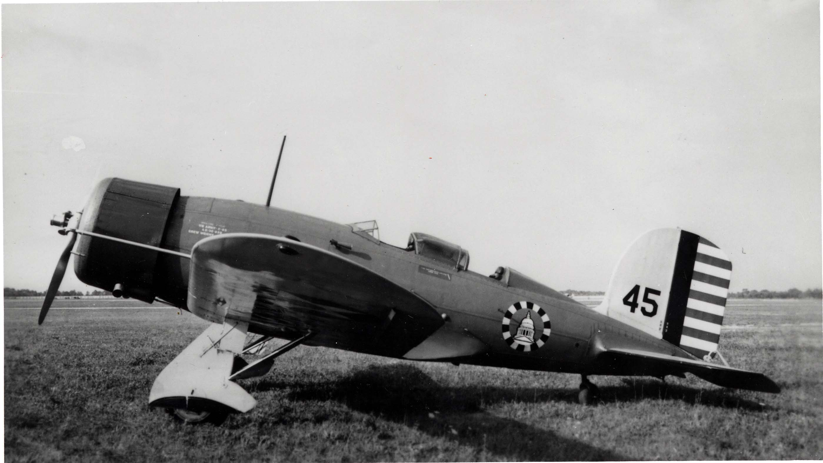 Lockheed C-23 ("Altair") fast executive staff transport operated by the United States Army Air Corps.